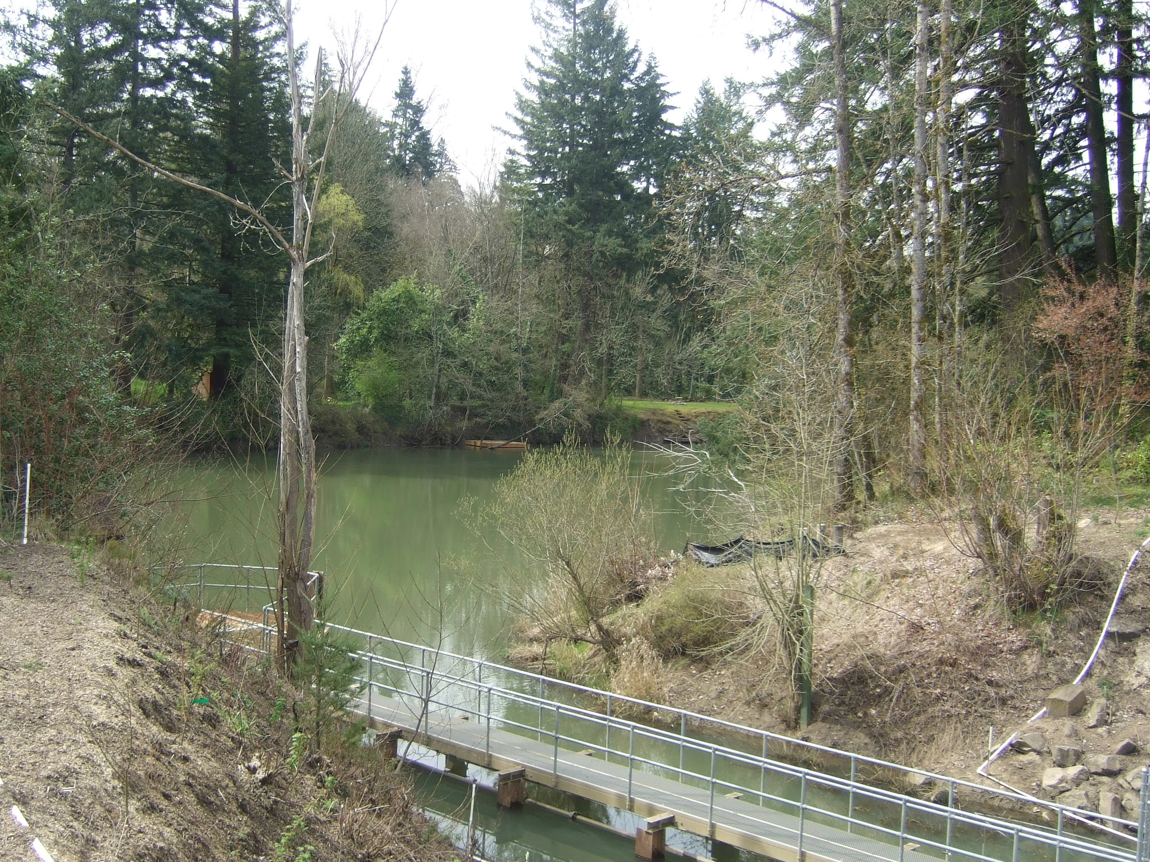 The Lake Oswego Canal as it connects to the Tualatin River, April 2008